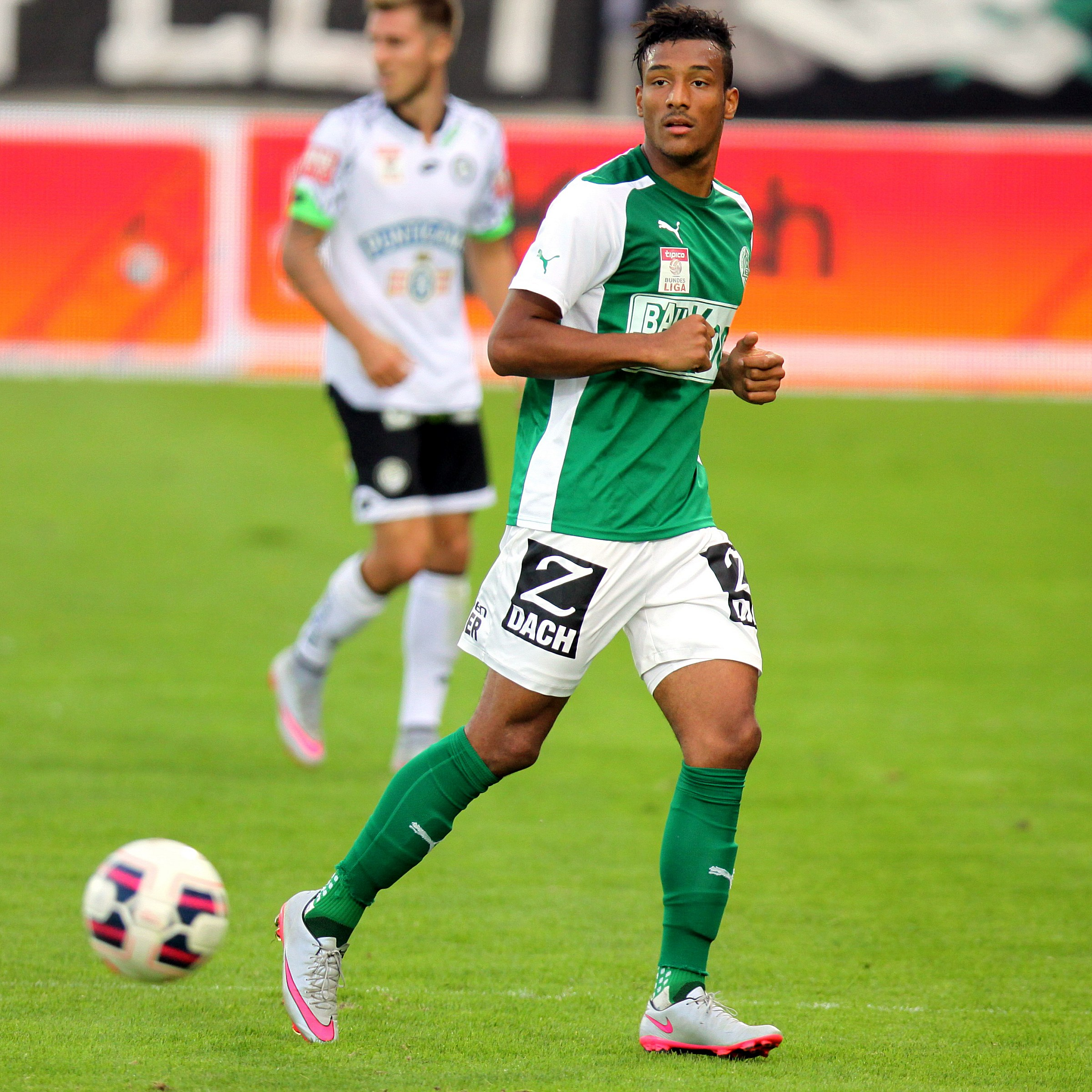 Match of the Austrian Football Bundesliga – SV Mattersburg (green shirts) vs. SK Sturm Graz (white shirts) on 2015-09-13 in Pappelstadion, Mattersburg – The photo shows Karim Onisiwo